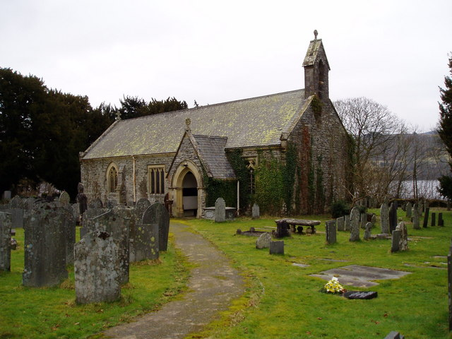 Church of St Beuno, Llanycil. On the shores of Llyn Tegid (Bala Lake), about a mile from Bala.